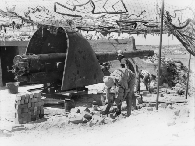 AWM caption : FREMANTLE, AUSTRALIA. 1943-02-18. WORK ON THE CONSTRUCTION OF A PARAPET TO NO. B2 GUN POSITION AT LEIGHTON BATTERY, FREMANTLE FIXED DEFENCES. Comment : This is a BL 6-inch Mk VII gun.